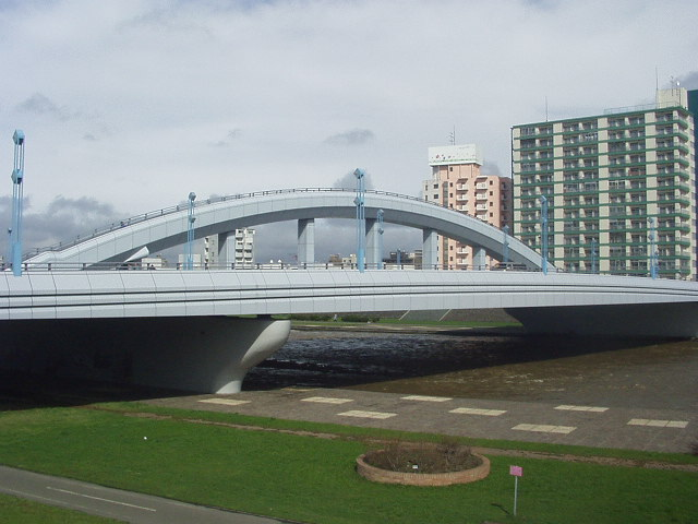 Horohira Bridge of Toyohira River. Chūō ward, Sapporo, Hokkaidō prefecture, Japan. Northward from the left bank.